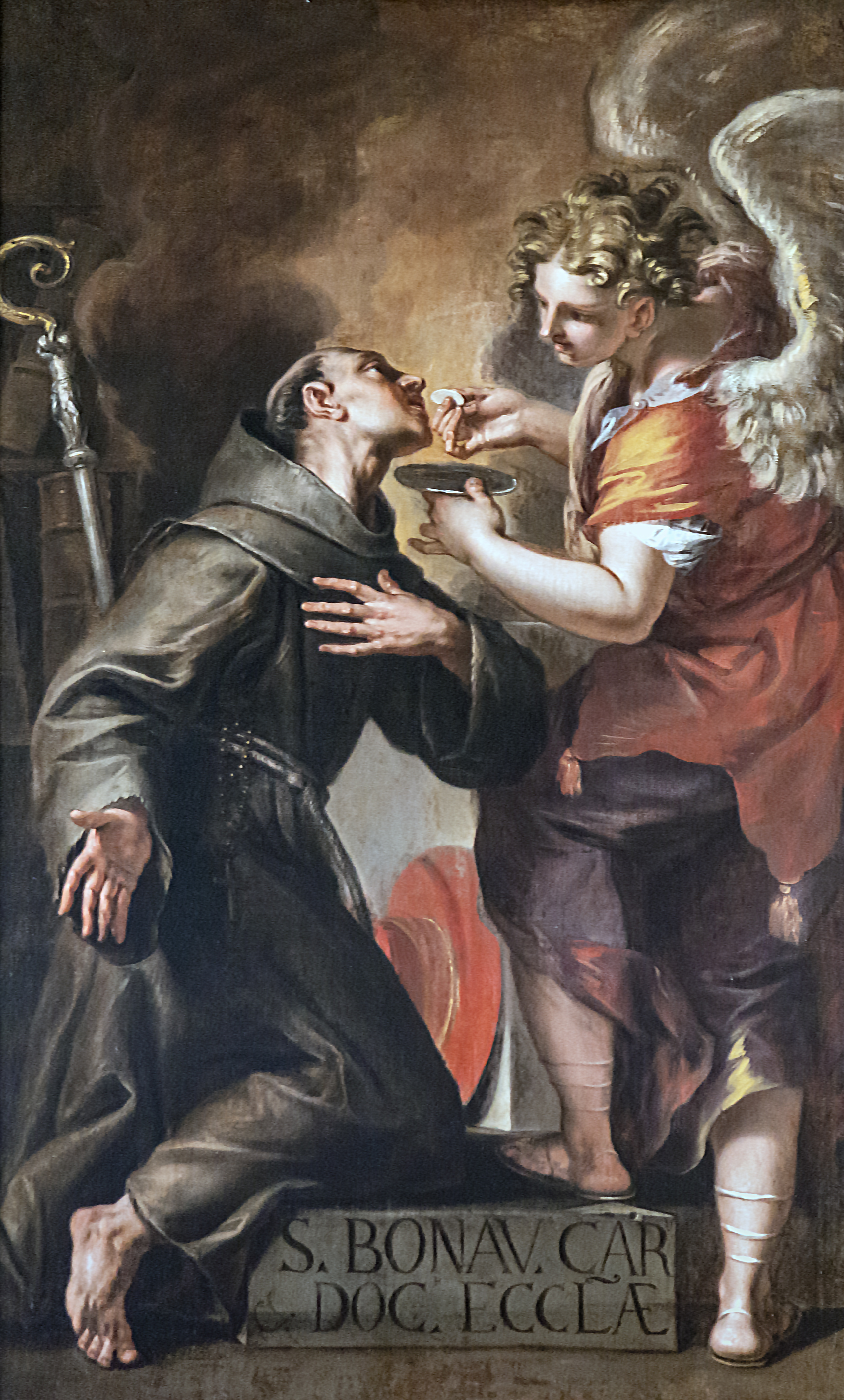 Sacritsty of San Francesco della Vigna (Venice). The communion of St. Bonaventure by Nicola Grassi.